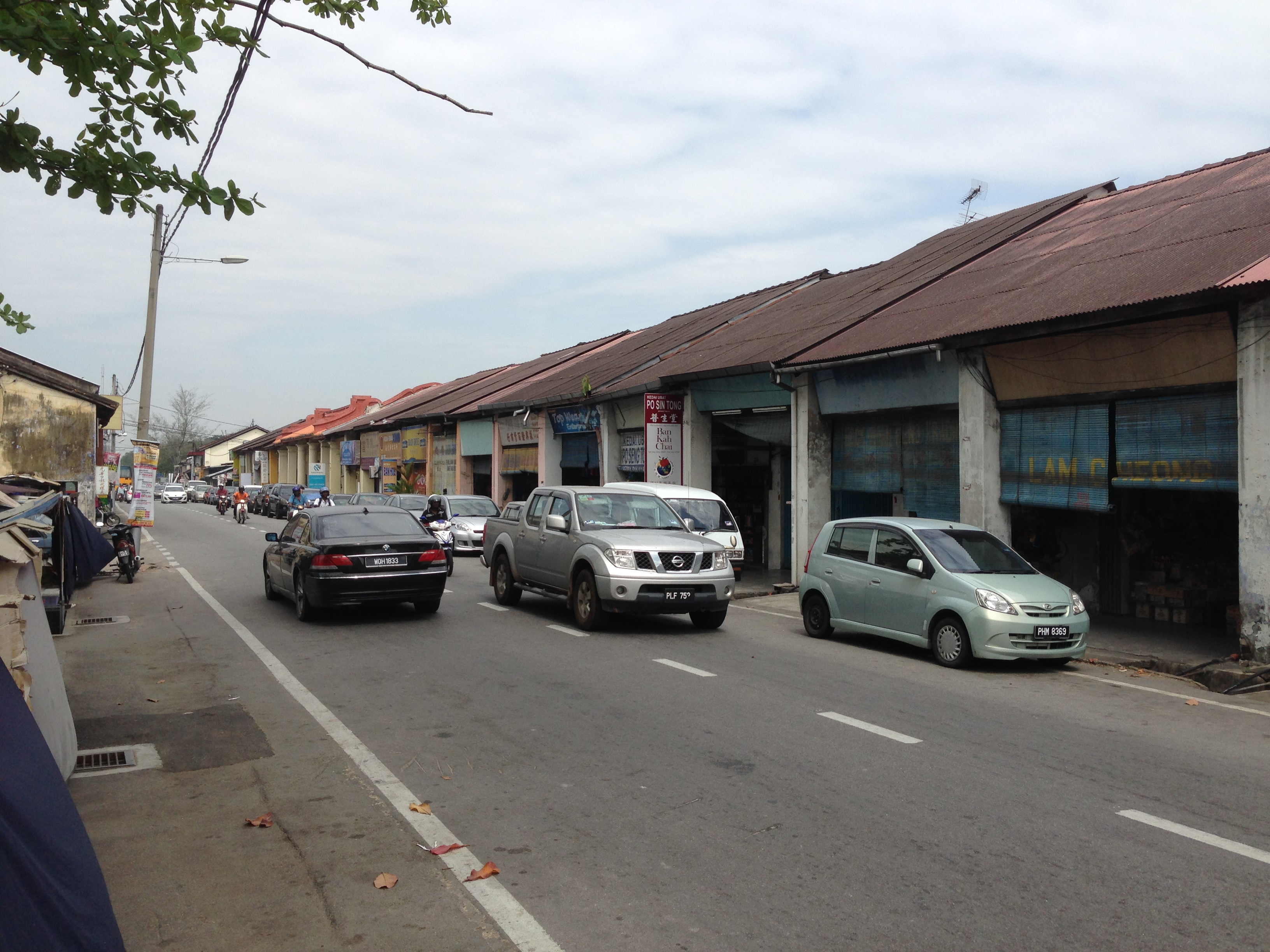 Sungai Bakap town centre along Jalan Besar